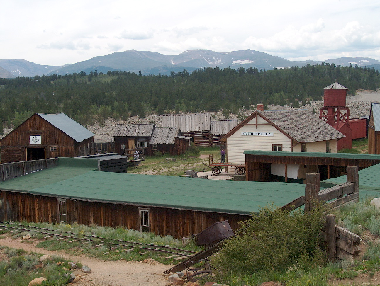 South Park City in Colorado